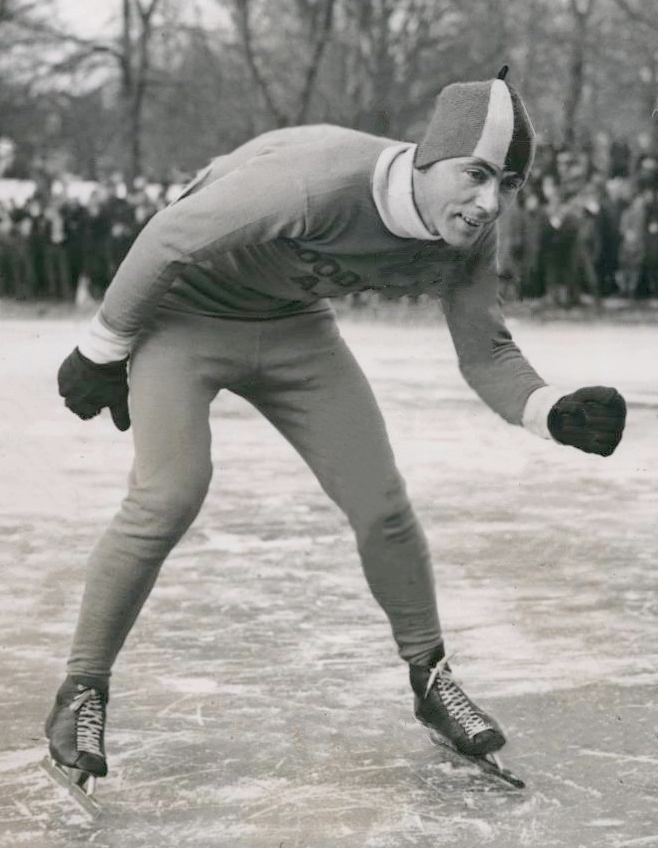 1936 Press Photo Frank Stack Canadian Olympic skate team - nes27126